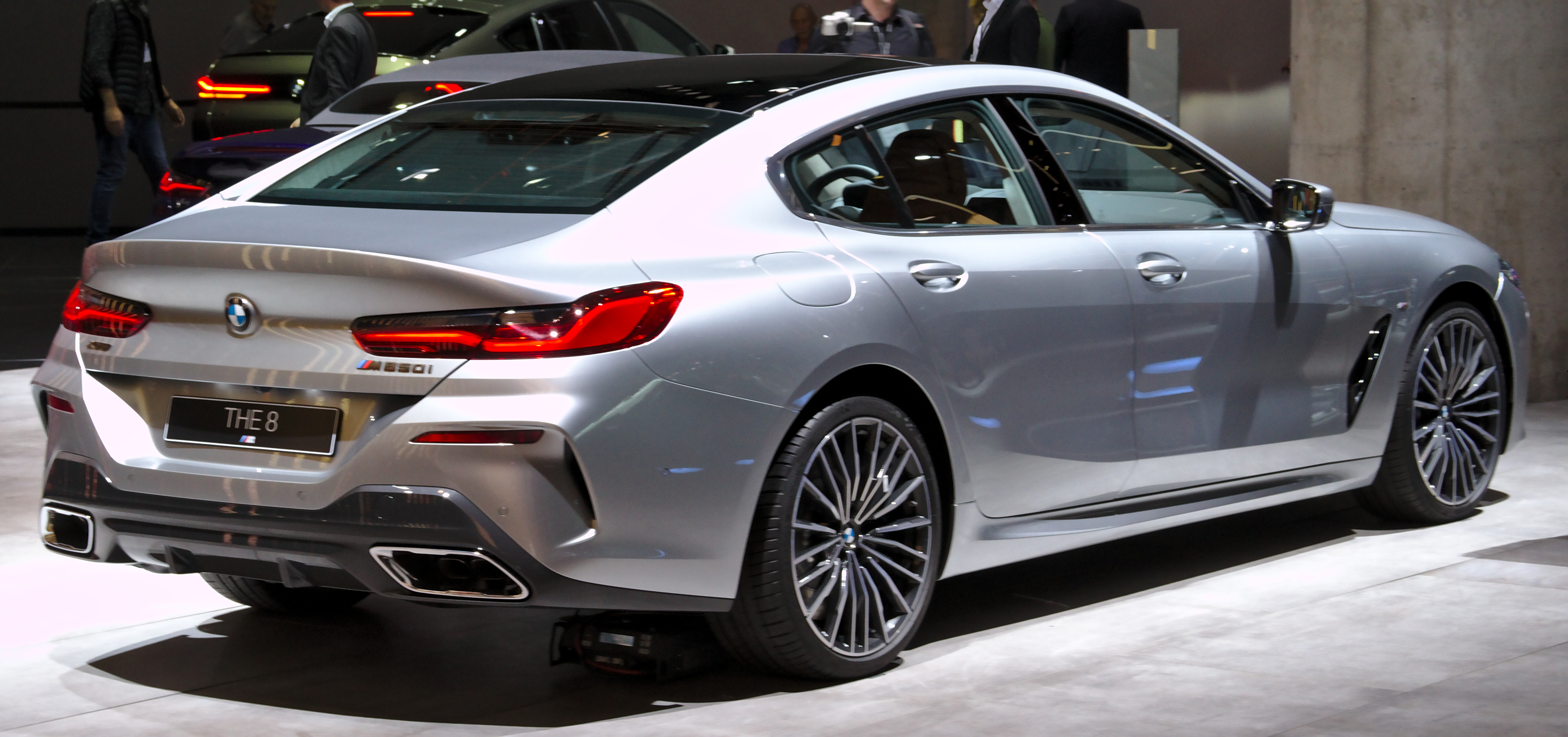 BMW_G16 at IAA 2019